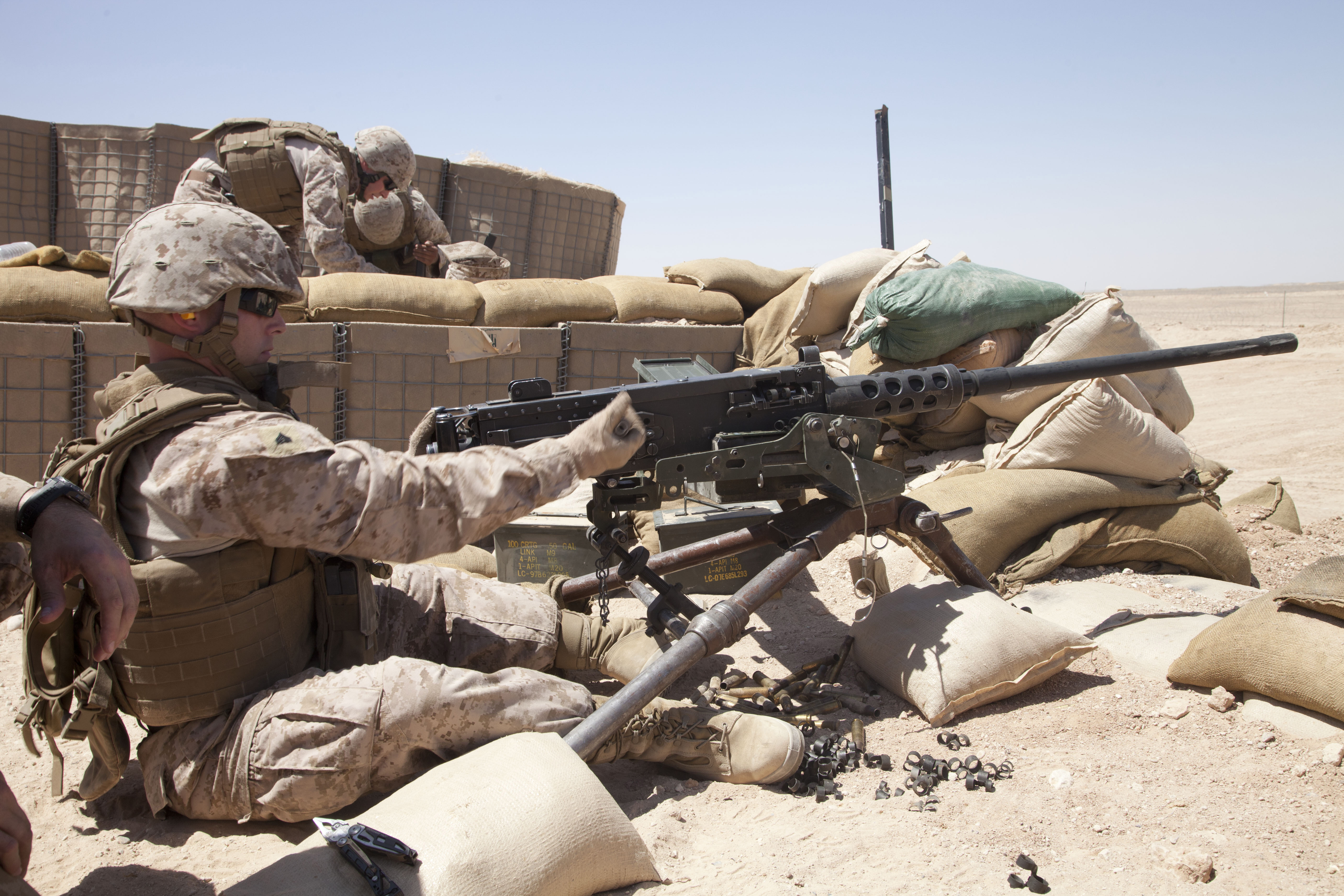 U.S. Marine Corps Cpl. Andrew C. Bell loads ammunition into an M2 .50-caliber heavy machine gun while training at Camp Leatherneck in Helmand province, Afghanistan, on June 28, 2012. Marines conducted the training to familiarize themselves with different weapons systems. Bell is assigned to Headquarters Battalion, 1st Marine Division.